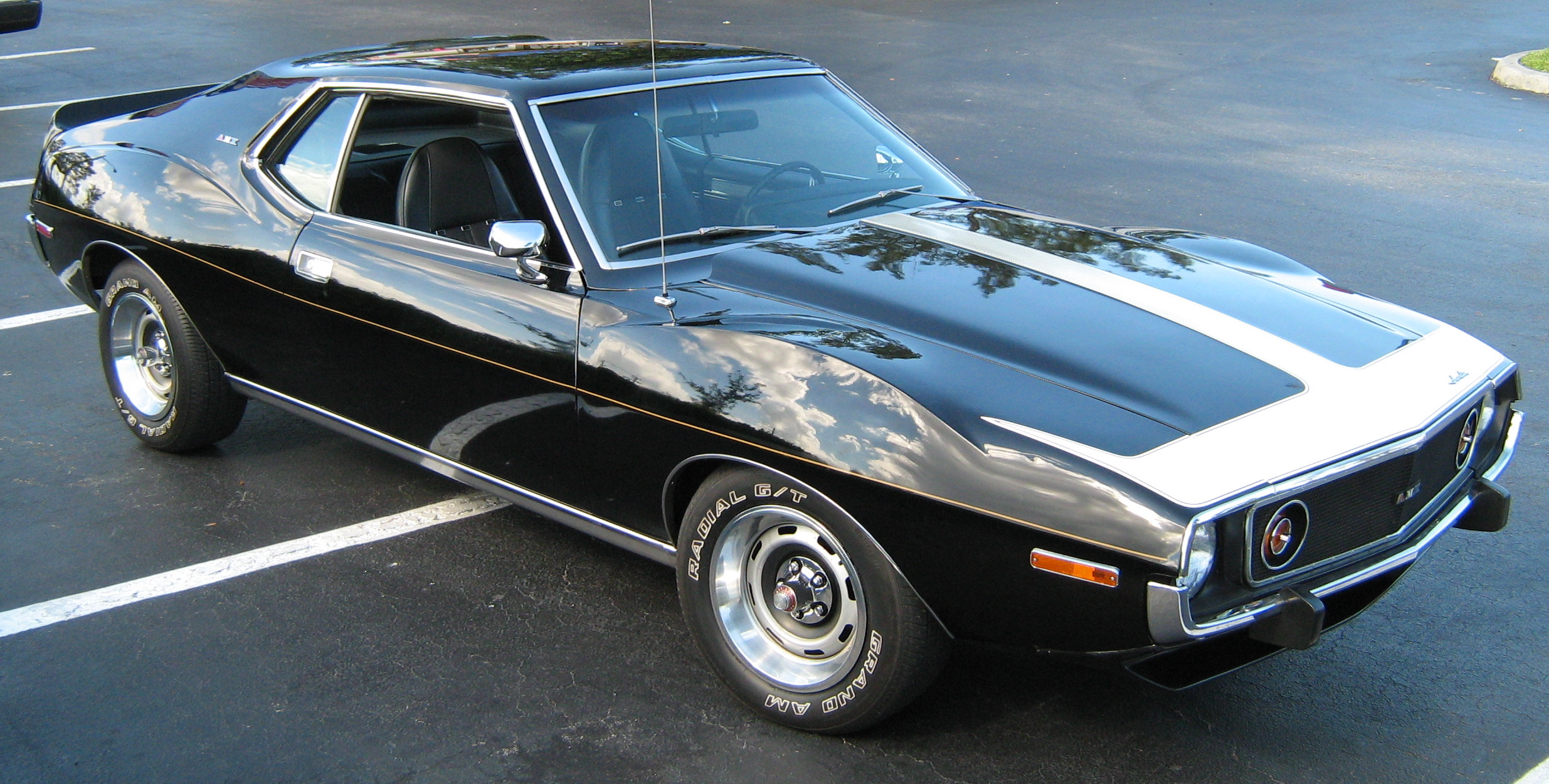 1974 AMC (American Motors Corporation) Javelin AMX - a "pony car", as well as a "muscle car" - finished in black - front view